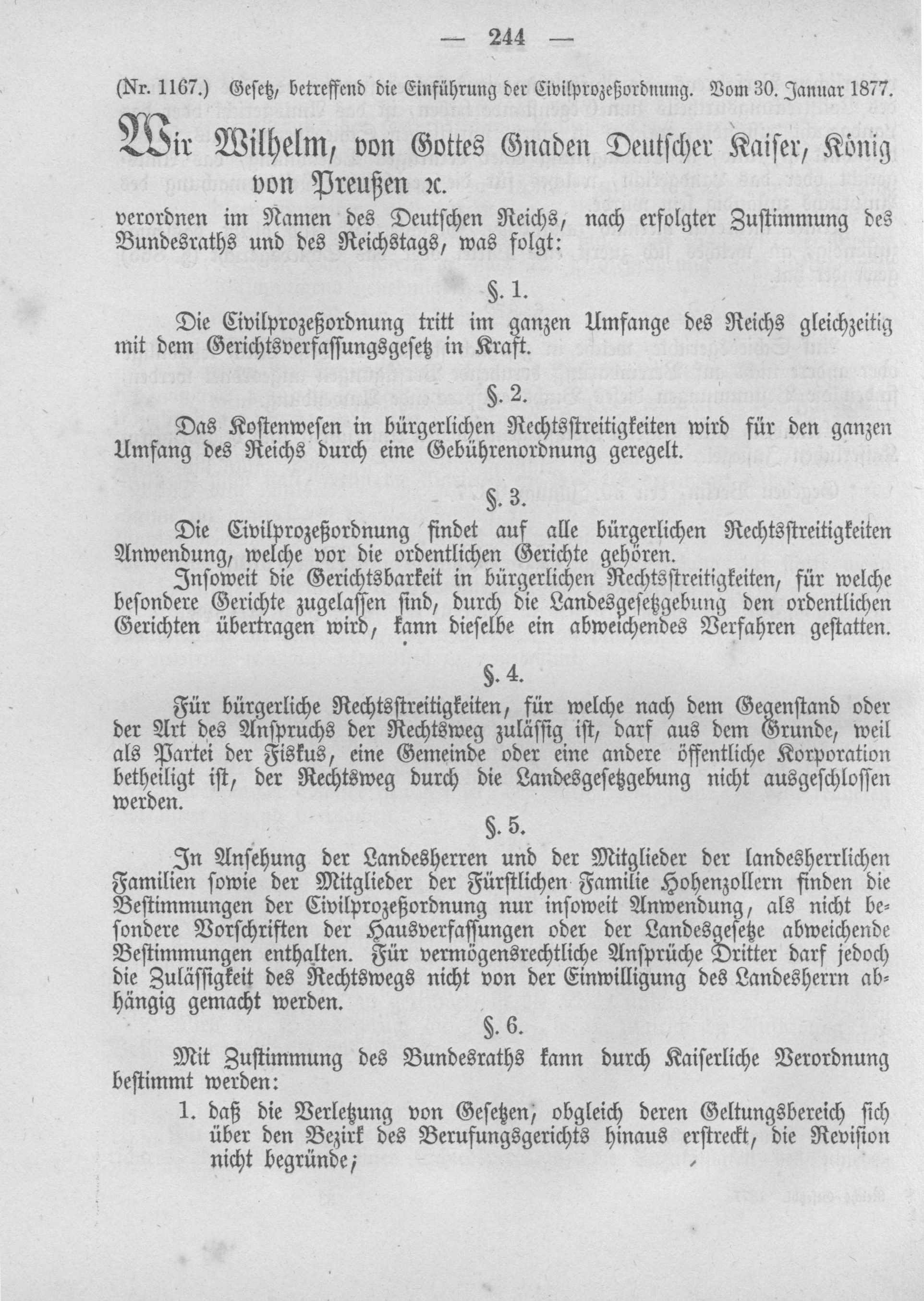 Scan from the Imperial Law Gazette of Germany, 1877